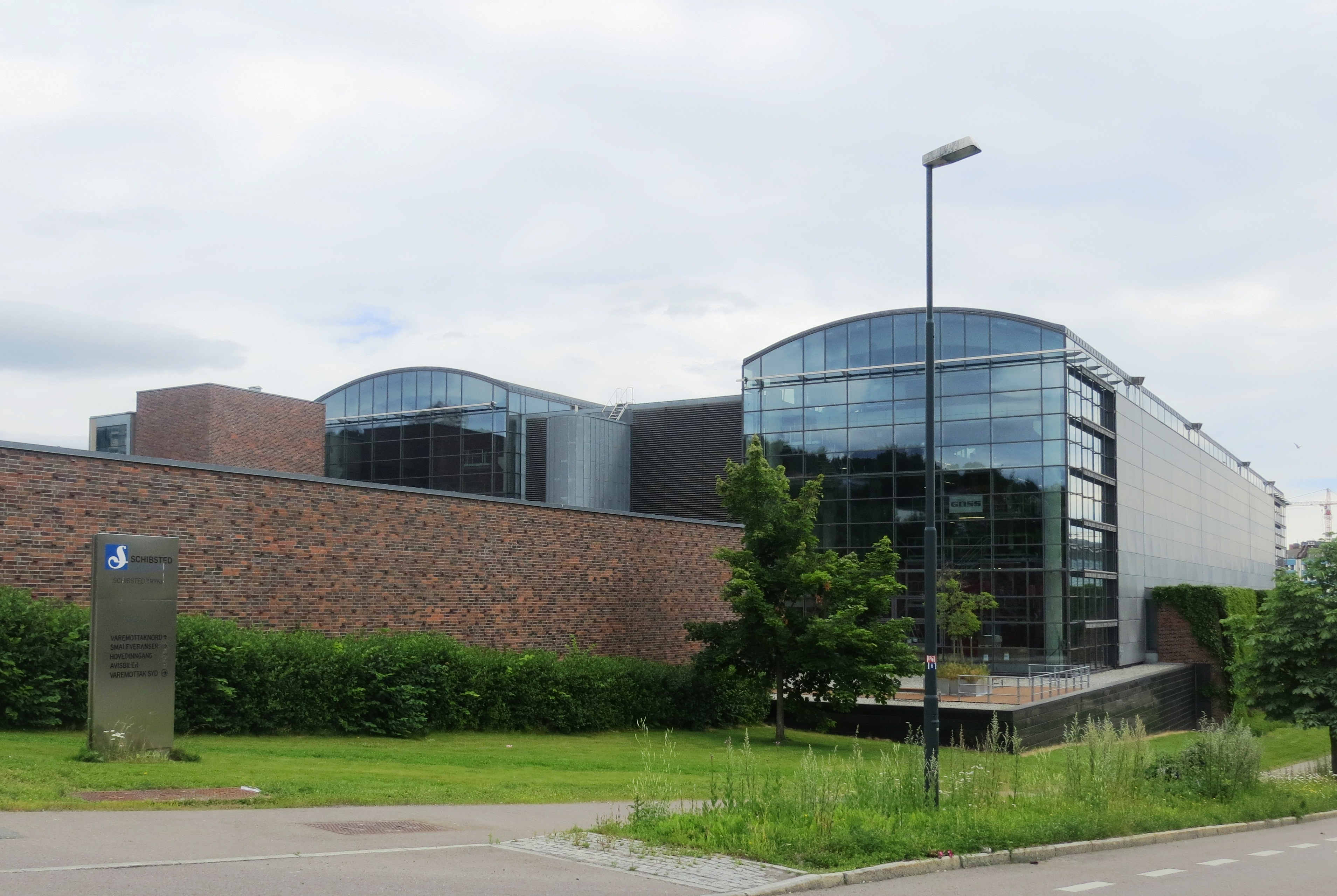 Schibsted printing facility in Nydalen, Oslo (Norway